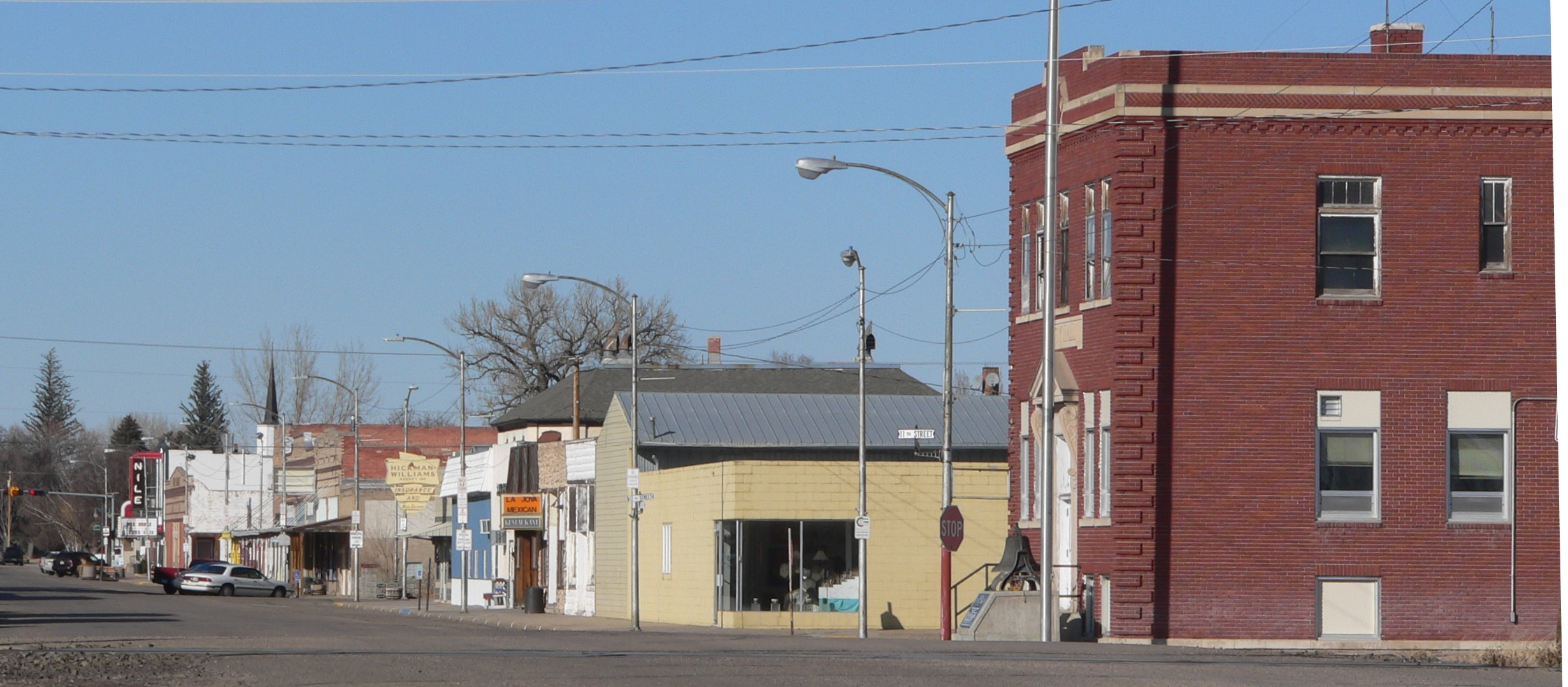 Downtown Mitchell, Nebraska: east side of Center, looking north from about 11th Street.